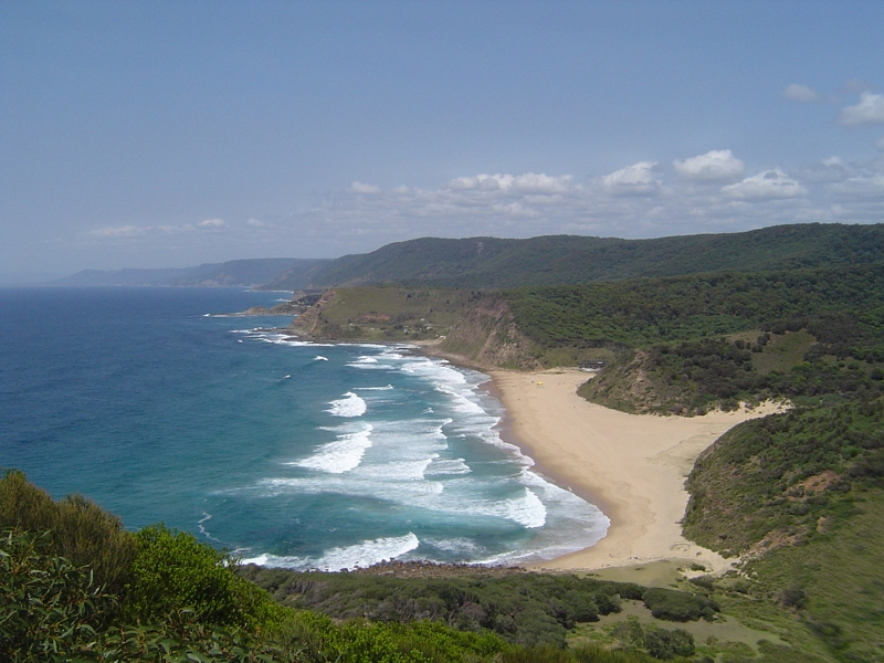 View of Burning Palms in the Royal National Park.